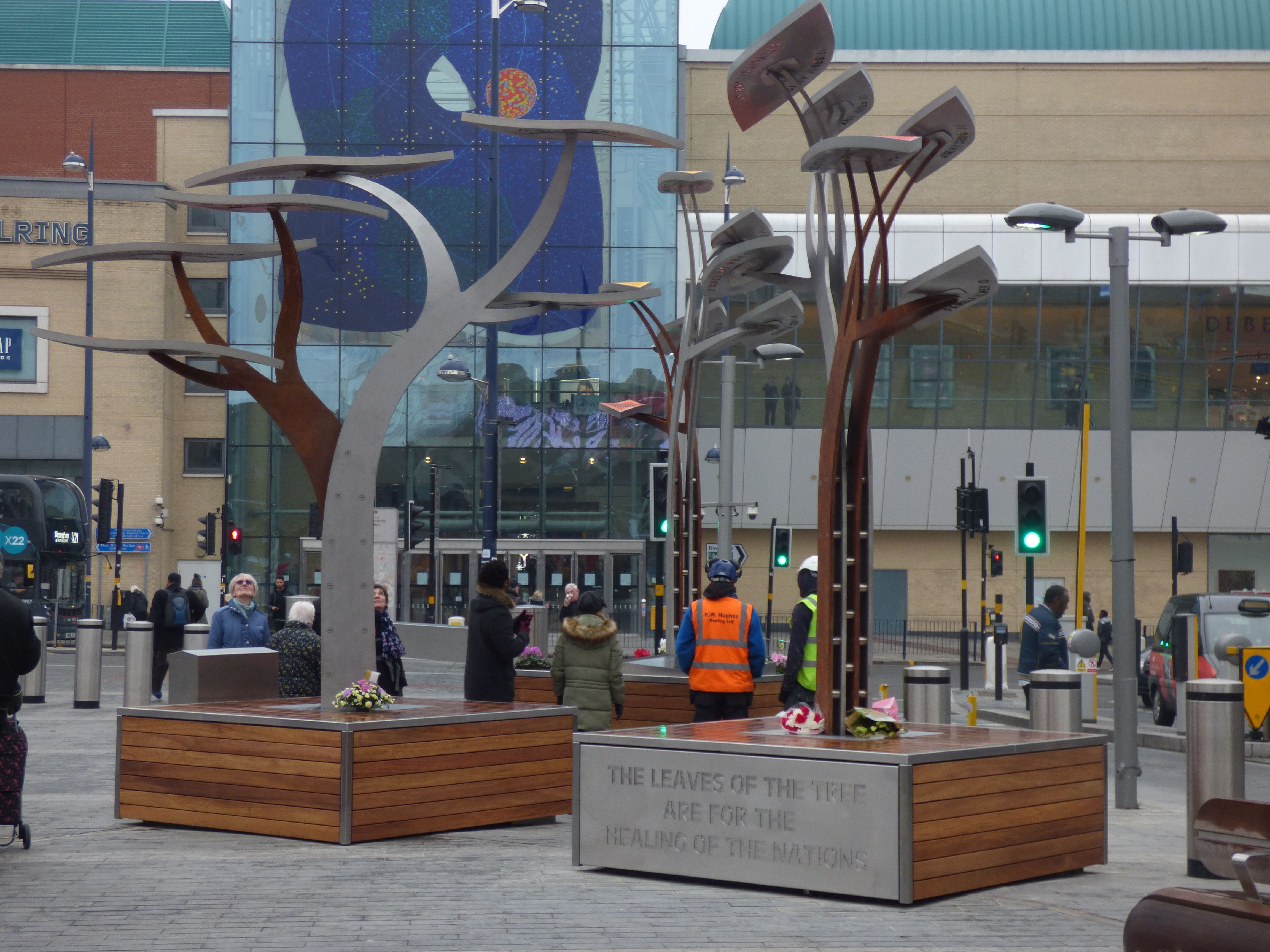 Seen at the public square outside of Birmingham New Street Station is the Birmingham Pub Bombings Memorial. It was unveiled on the evening of the 21st November 2018, 44 years to the day that the attack happened at two pubs on New Street. The artwork is by Anuradha Patel. There is 21 stainless steel leaves with the names of the victims on them.